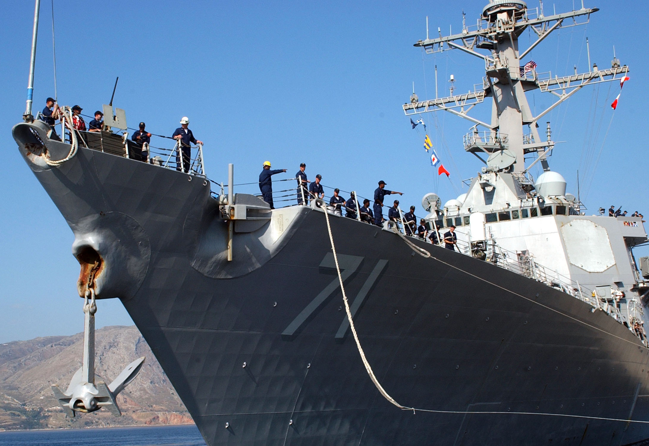 Souda Bay, Crete, Greece (June 25, 2006) – Crew members aboard the guided missile destroyer USS Ross (DDG 71) conduct mooring operations as they arrive for a brief port visit to Greece's largest island. The Arleigh Burk-class destroyer departed her homeport of Norfolk, Va., for a regularly scheduled six-month deployment. Ross is currently assigned to Standing NATO Response Force (NRF) Maritime Group Two (SNMG-2) and is operating in support of Operation Active Endeavor, NATO's maritime contribution to the fight against terrorism. SNMG-2 is a naval force made up of vessels from various allied nations, training and operating together as a collective whole under the Commander, of the Component Command Maritime Naples (Mar-COM Naples). U.S. Navy photo by Paul Farley (RELEASED)